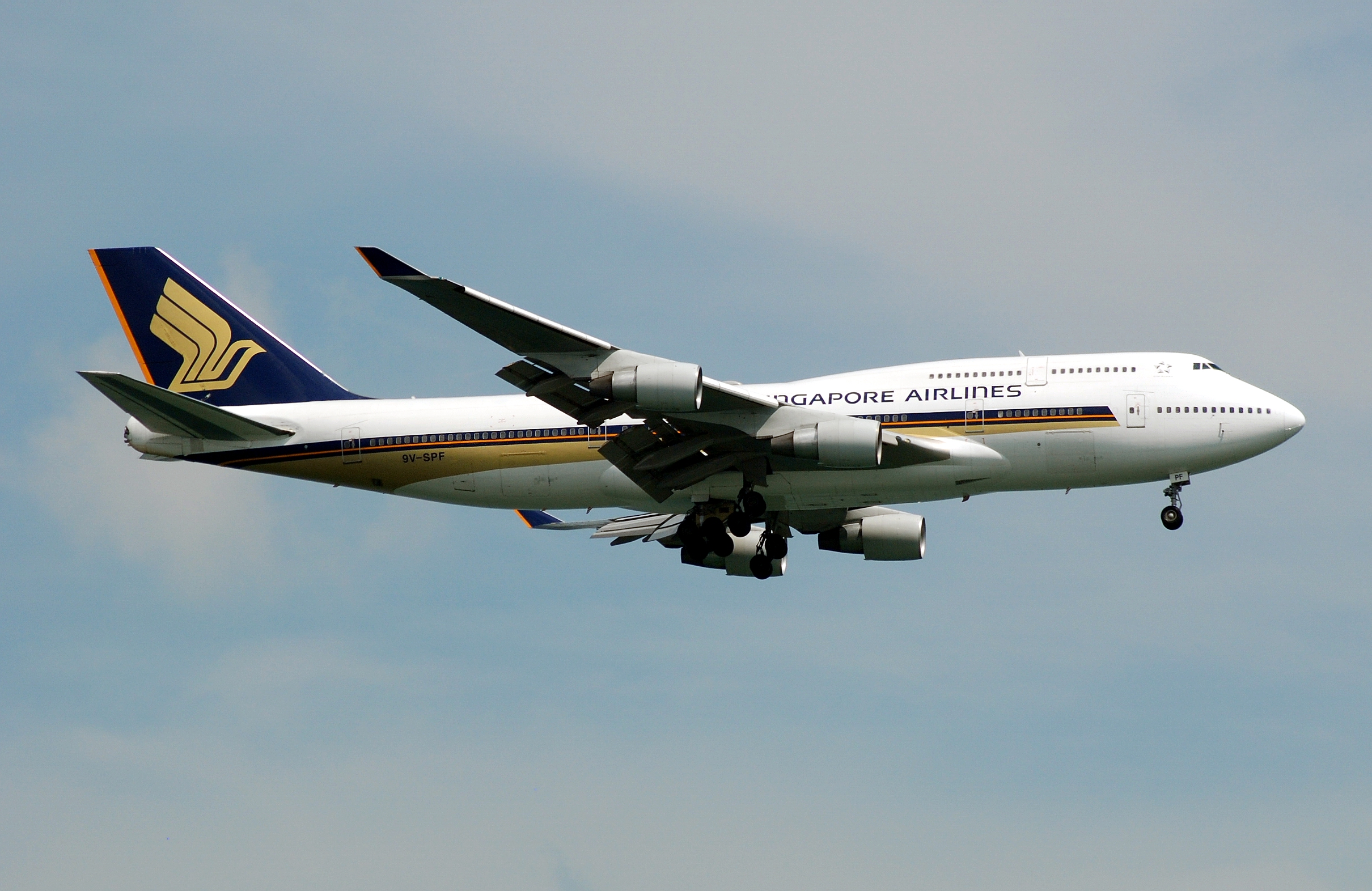 Singapore Airlines Boeing 747-400 (9V-SPF) landing on 02C at Singapore Changi Airport. Taken with a Nikon D80 and AF 70-300 f/4-5.6G lens.